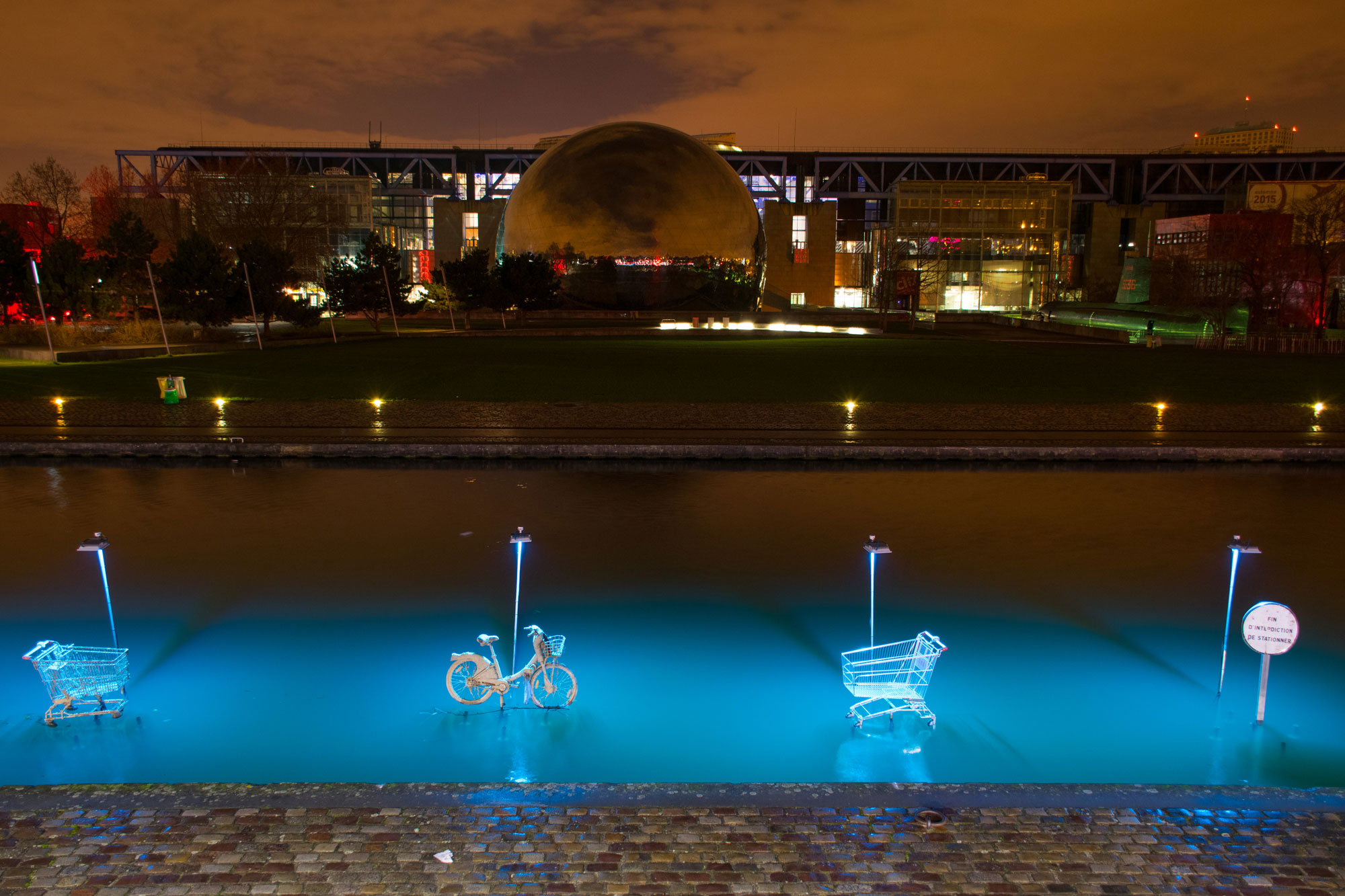 Installation in La Villette, Paris